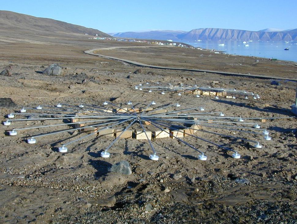 Infrasound arrays at infrasound station IS18, Qaanaaq, Greenland. Part of the Nuclear-Test-Ban Treaty Organization Preparatory Commission monitoring system Copyright CTBTO Preparatory Commission